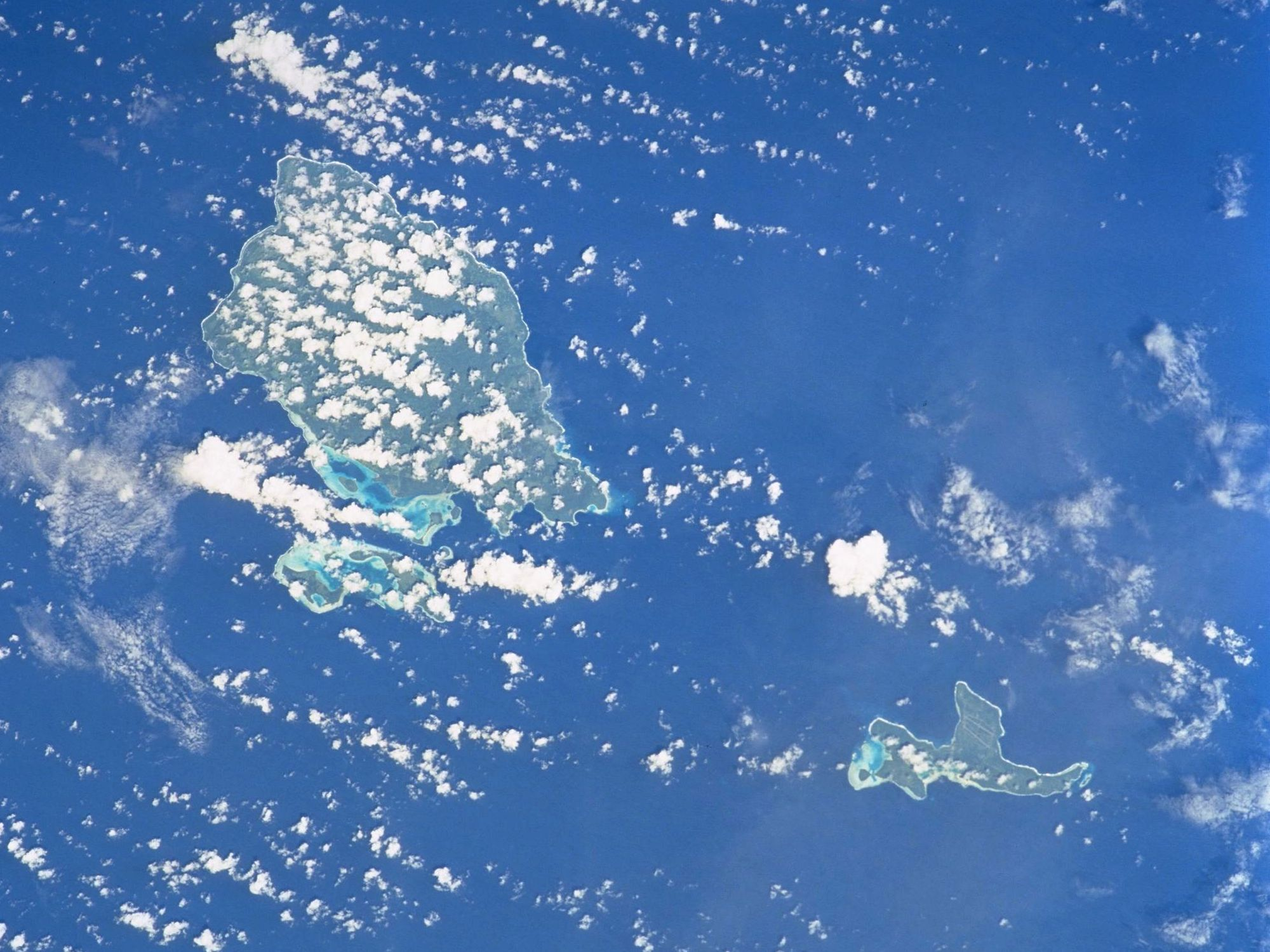 NASA Space Shuttle image STS108-716-18 shows the St. Matthias Islands